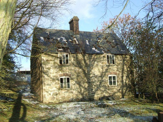 Bryn-Llwyd above Cyffylliog Denbighshire This ruin lies on the Clwydian Way and Mynydd Hiraethog south of the village of Cyffylliog Denbighshire